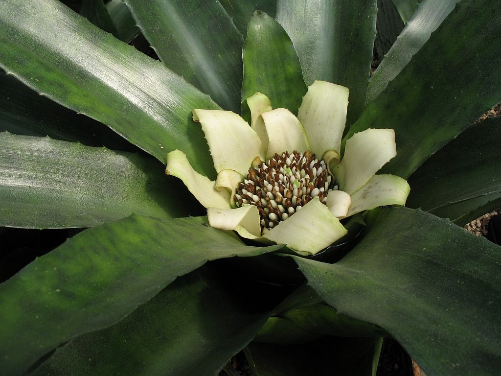 Hohenbergia augusta in cultivation at the Botanical Garden of Heidelberg, Germany.